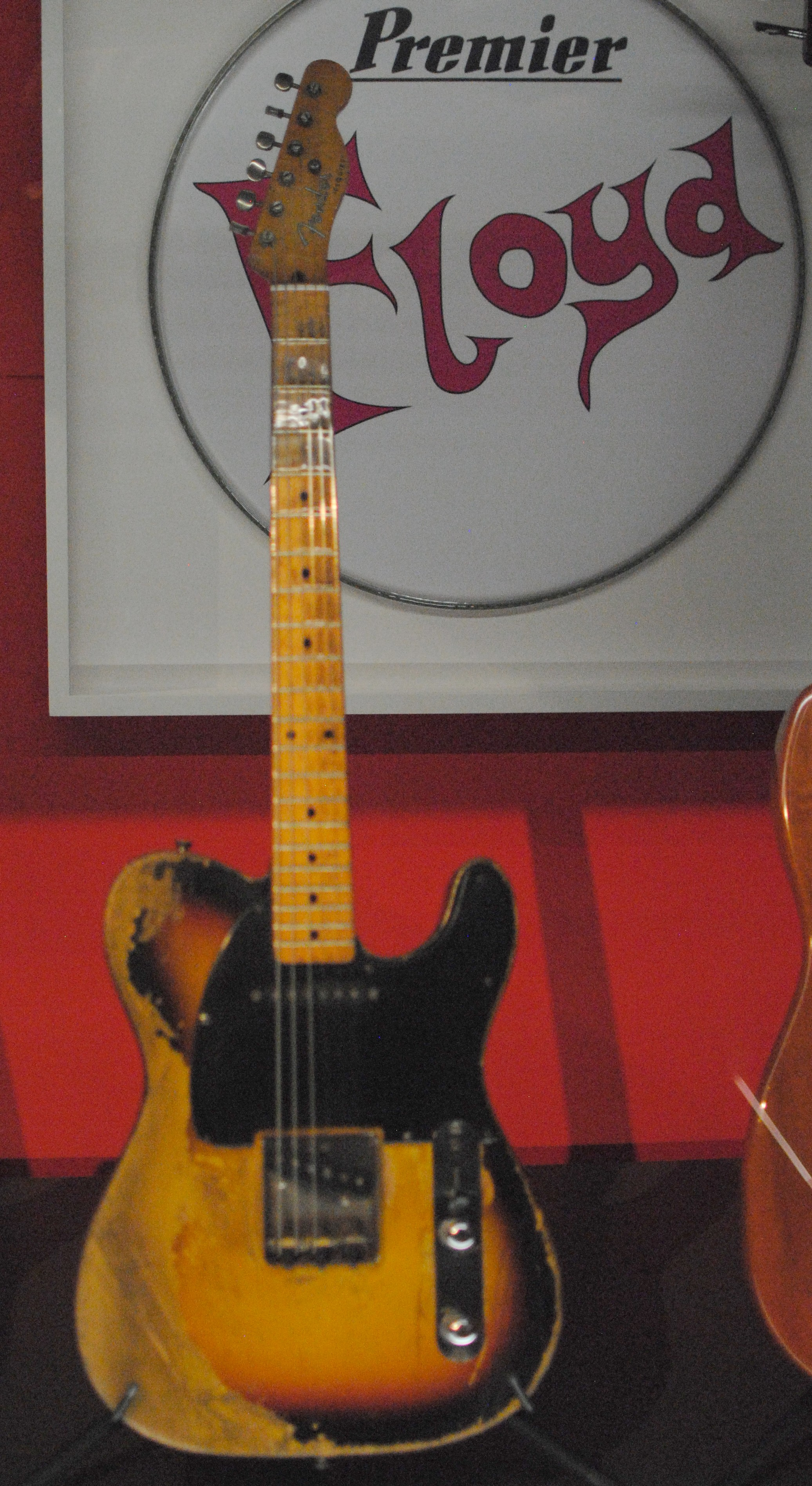 David Gilmour's Fender Esquire guitar (1952), nicknamed by him "The Workmate", due to its battered appearance. Gilmour used the guitar in rehearsals for Pink Floyd's 1977 In The Flash tour. He purchased it from Seymour Duncan, at which point it already had a Fender Stratocaster pickup in the neck position. Seen displayed at the Pink Floyd: Their Mortal Remains exhibition at the Victoria and Albert Museum, with one of Nick Mason's customised drum skins in the background.